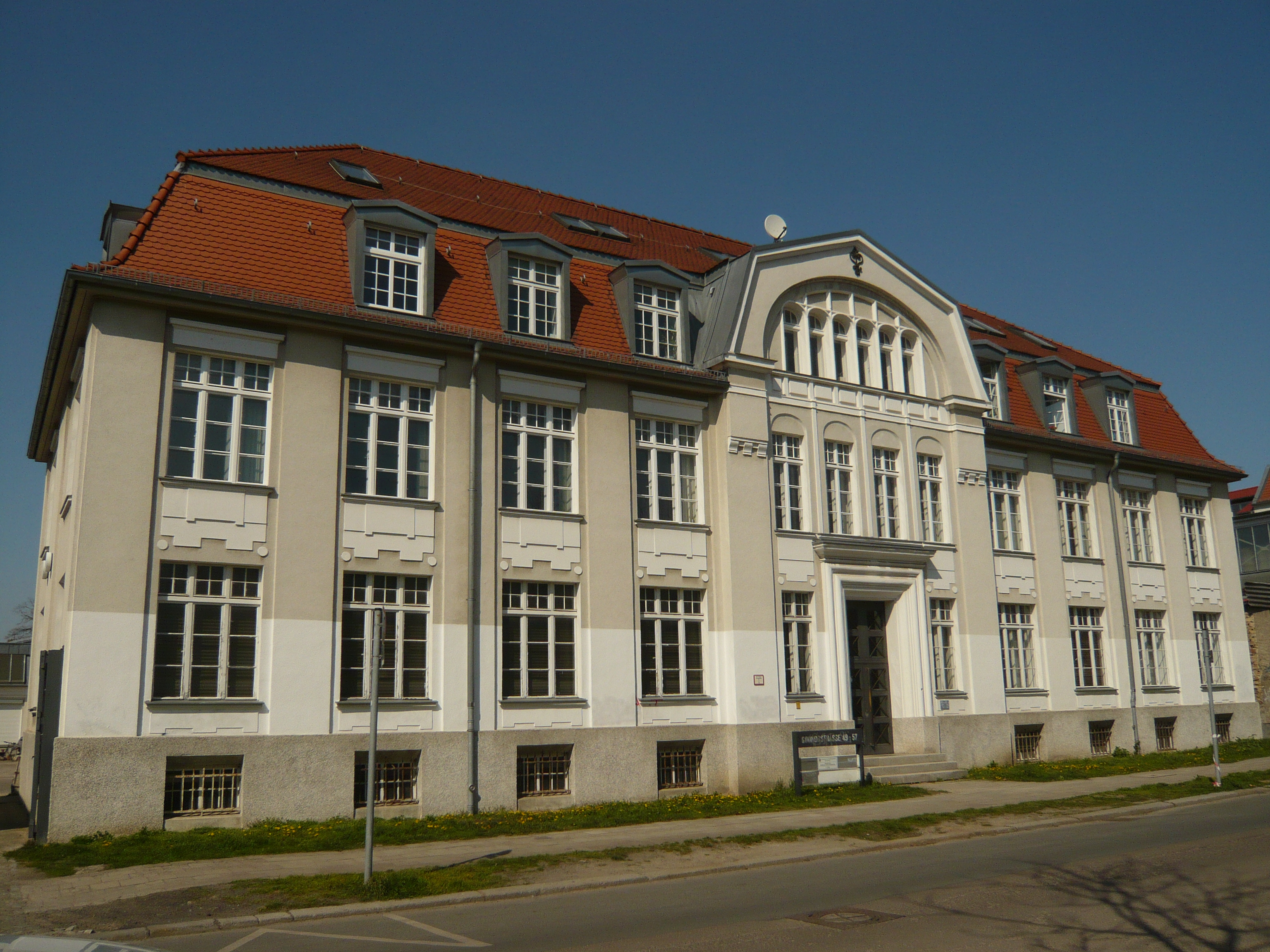 Administration building of the former textile printing factory at Gounodstraße 49-57, Berlin-Weissensee, Germany